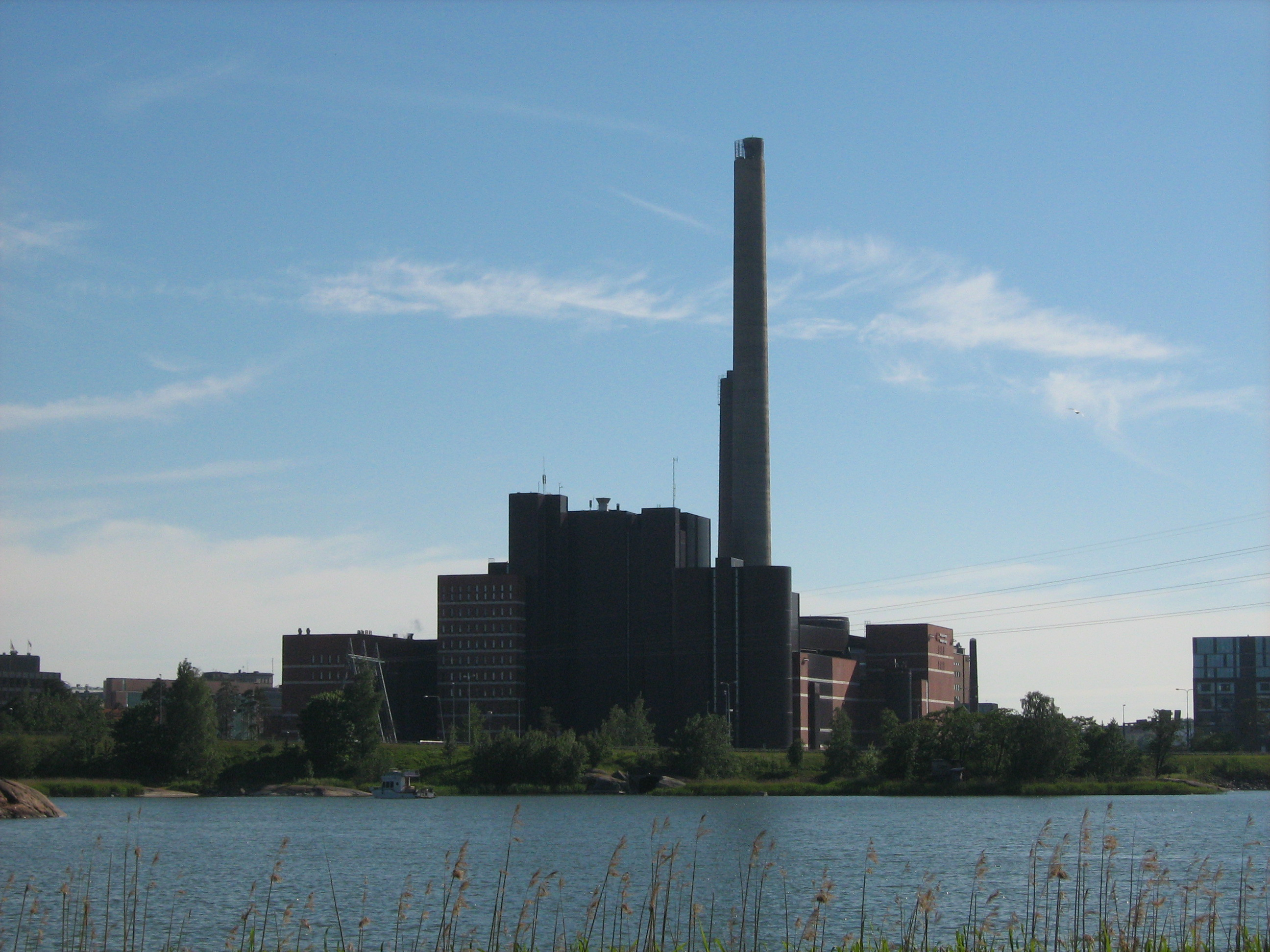 Salmisaari power plant in Helsinki